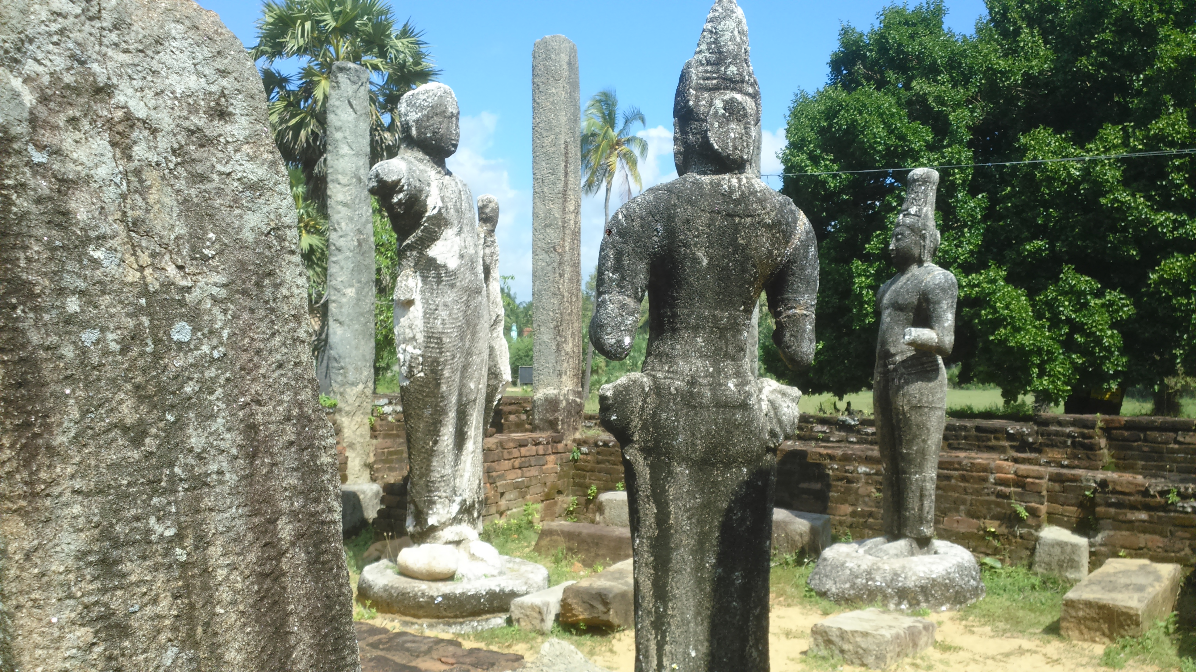 Ruins at Muhudu Maha Vihara, Pothuvil, Sri Lanka